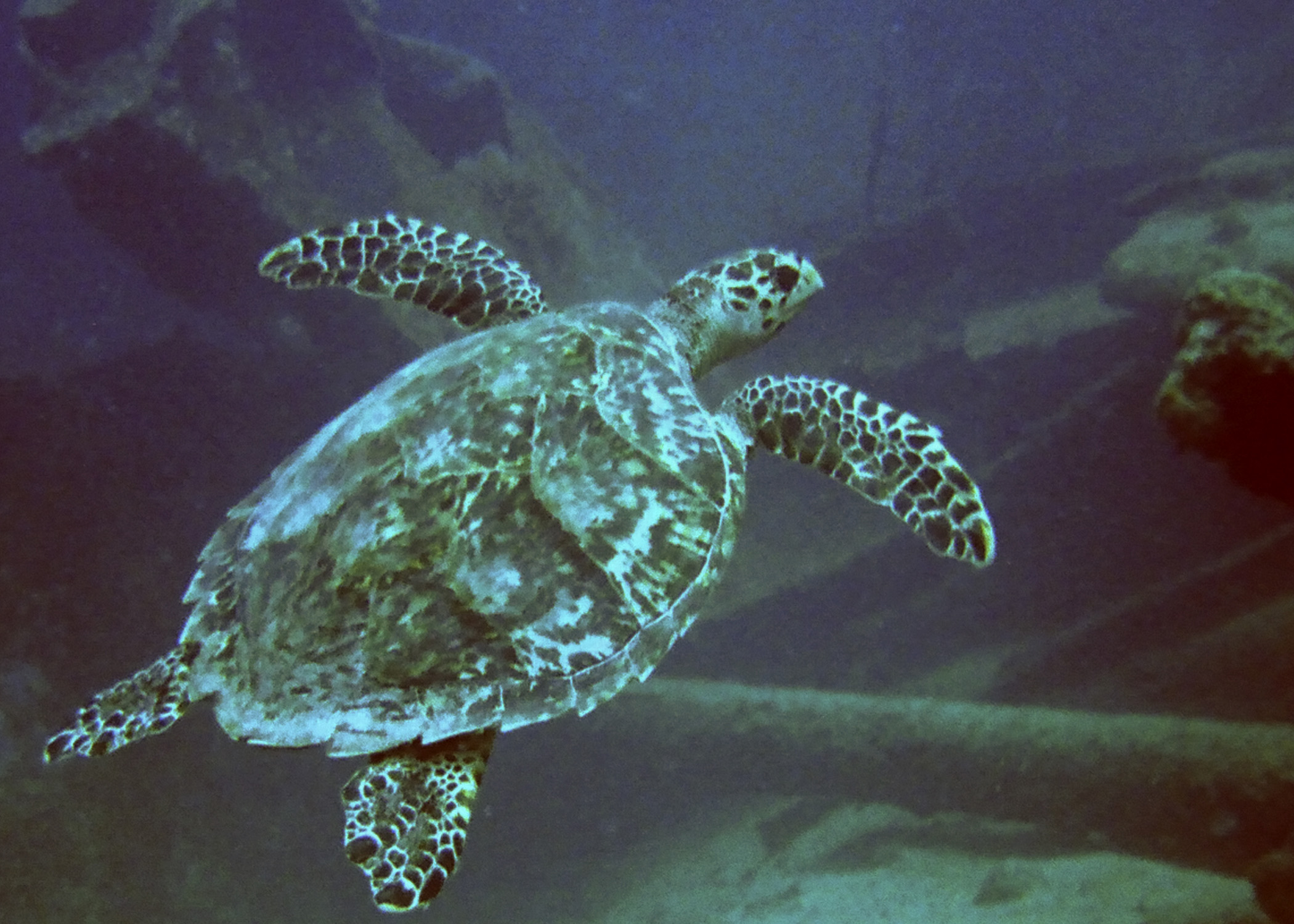 And this concludes the Aruba Vacation Photos no one saw this one but me. they were busy following the Dive master